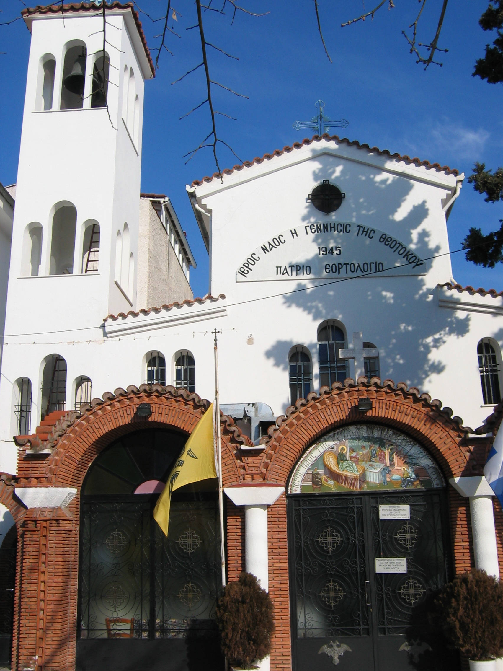 Church in Serres, Greece